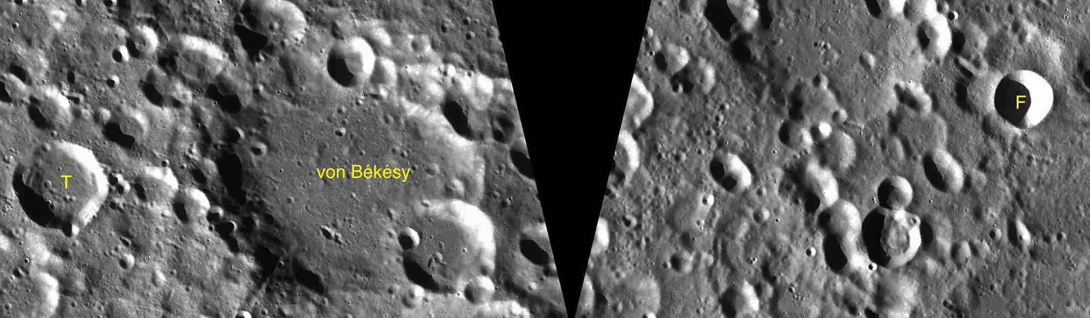 Parts of the charts LAC-16, LAC-17 used for the presentation